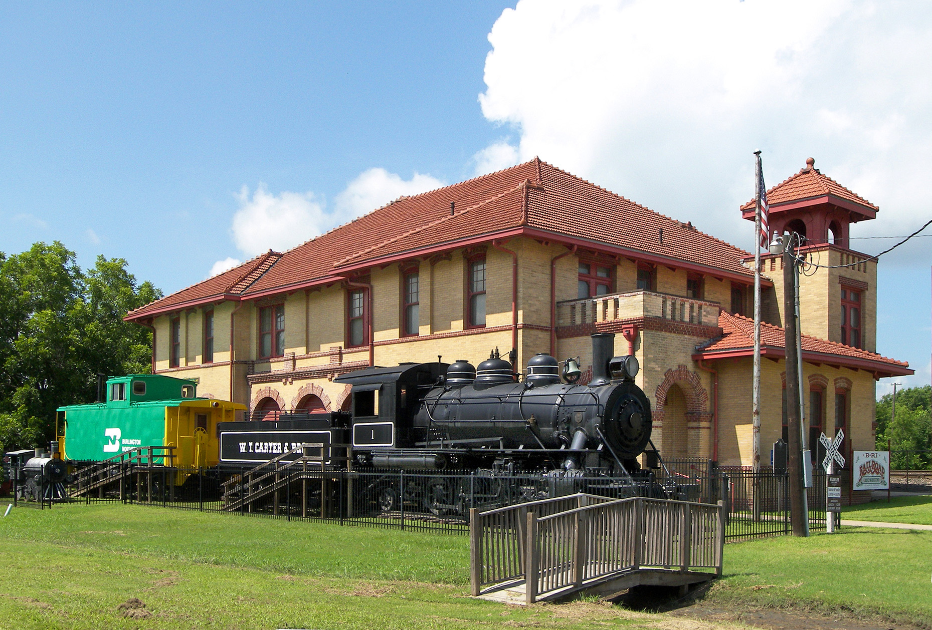 The Trinity and Brazos Valley Railroad Depot and Office Building located at 208 S 3rd Ave, Teague, Texas, United States. It was listed on the National Register of Historic Places on March 21, 1979.